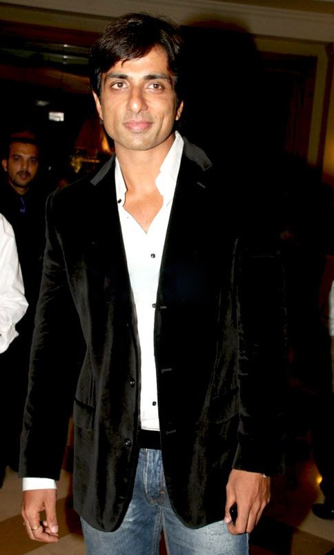 Sonu Sood at the B&D Award's nite